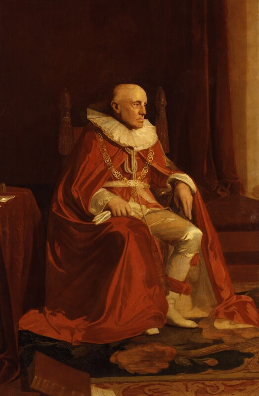 Sir George Barlow, 1st Bt, by unknown artist, given to the National Portrait Gallery, London in 1974. All images in this batch have an unknown author, but there is strong evidence it was first published before 1923 (based mainly on the NPG's estimated date of the work).